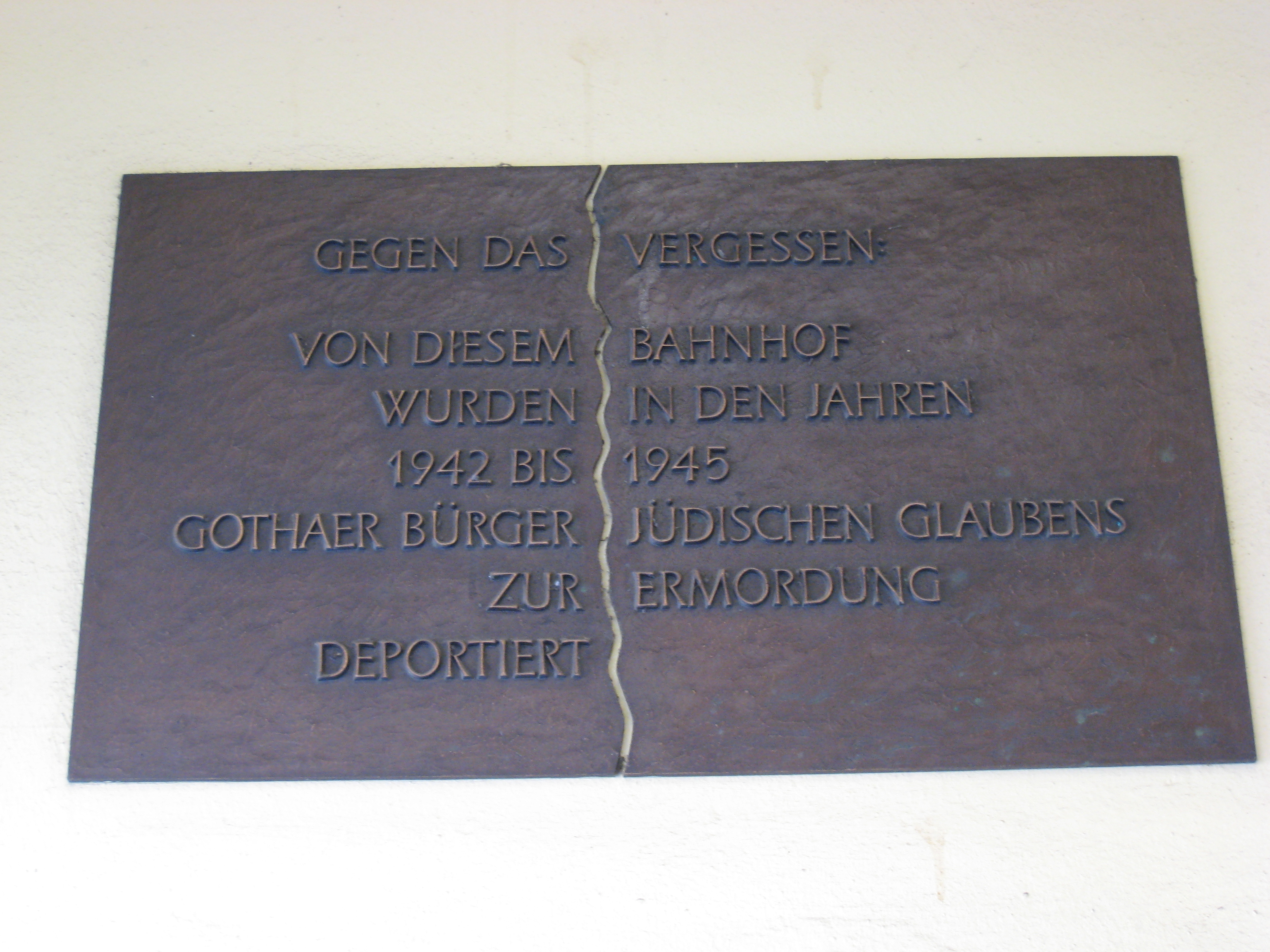 Memorial plate central railway station Gotha, deportations of Jews